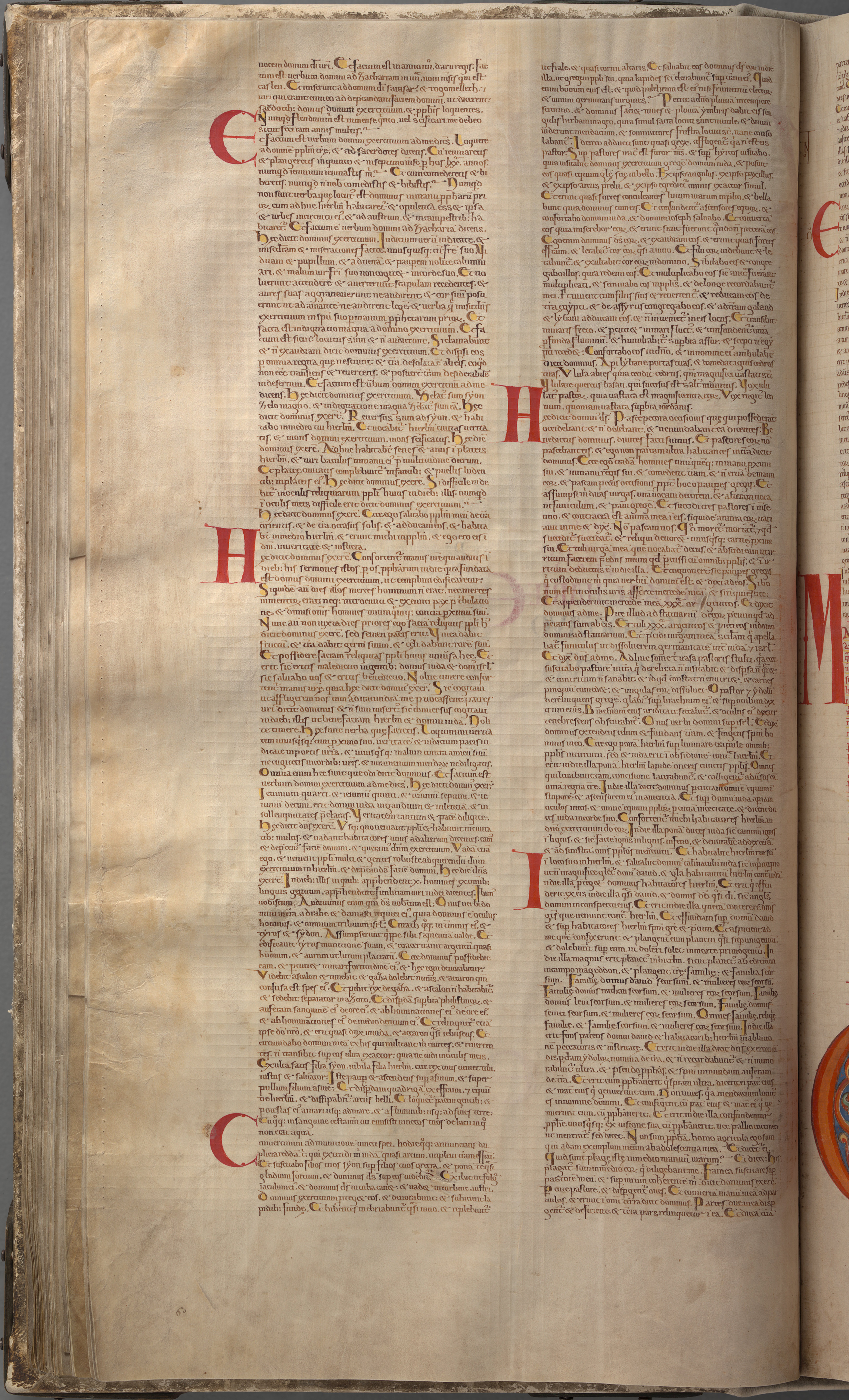 Giant Book) is the largest extant medieval manuscript in the world. It is also known as the Devil's Bible because of a large illustration of the devil on the inside and the legend surrounding its creation. It is thought to have been created in the early 13th century in the Benedictine monastery of Podlažice in Bohemia (modern Czech Republic). It contains the Vulgate Bible as well as many historical documents all written in Latin. During the Thirty Years' War in 1648, the entire collection was taken by the Swedish army as plunder, and now it is preserved at the National Library of Sweden in Stockholm, though it is not normally on display. This page contains a part of the book of Zechariah (6:15-13:9)